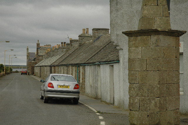 Main Street, Balfour Village:The main street of Balfour, Shapinsay, Orkney, Scotland